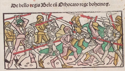 Battle of Kressenbrunn